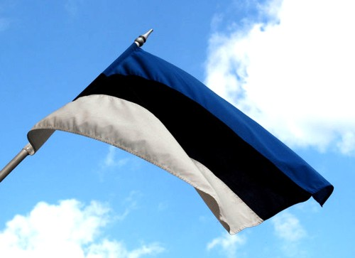 An Estonian flag waving in the air.